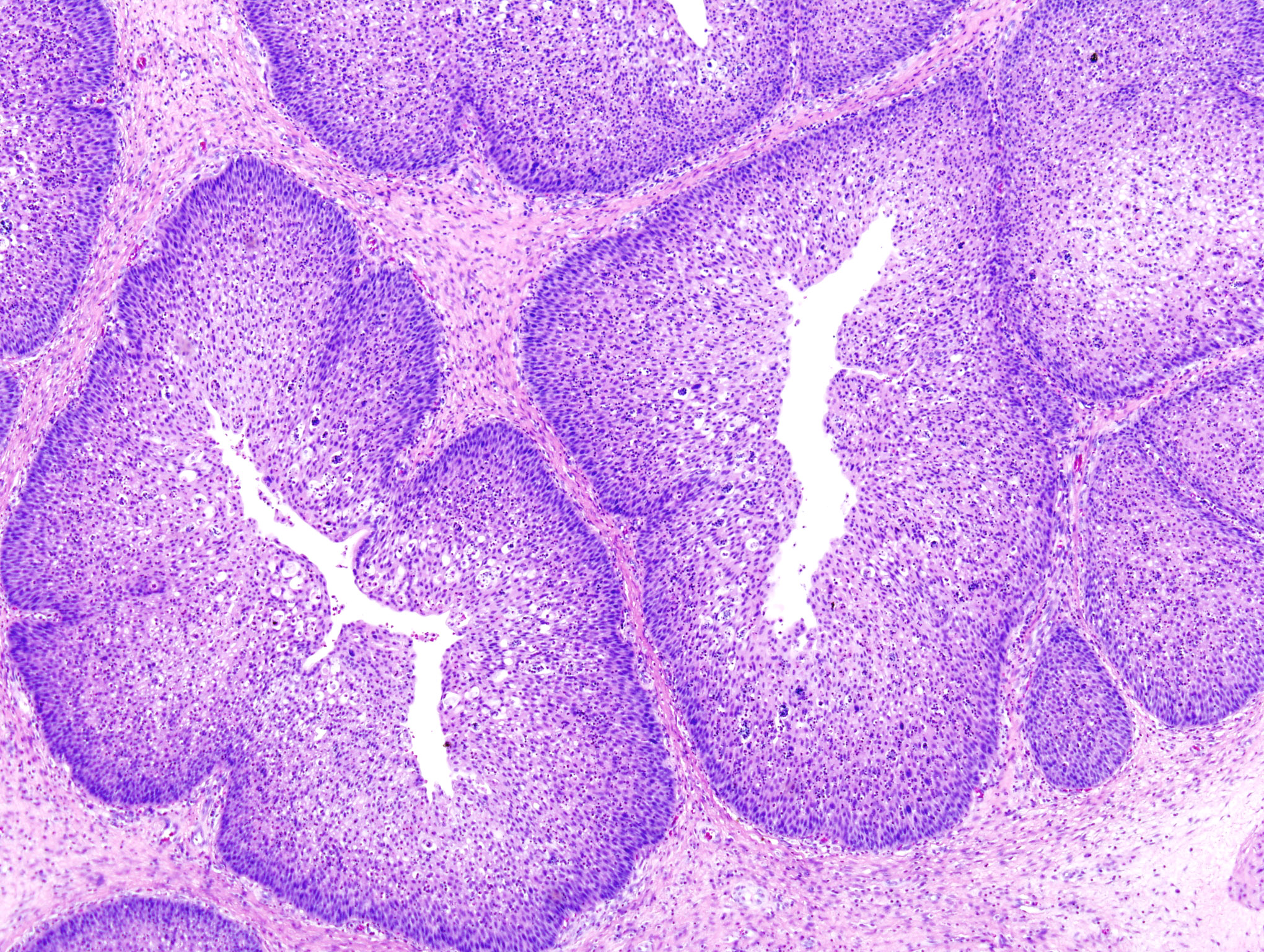 Histopathologic image of nasal inverted papilloma obtained by biopsy. Photographed by CCD camera through Olympus microscope, then modified by auto-contrast function in Adobe software.